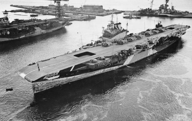 The Royal Navy during the Second World War The aircraft carrier HMS INDOMITABLE, with Grumman Avenger planes on deck, seen from the top of a large crane as she enters the basin from the Loch on her way to No 2 Dry Dock at Rosyth Dockyard.